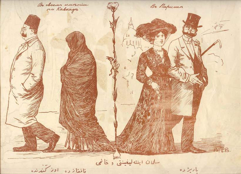 A Muslim intellectual and his wife. Molla Nasreddin magazine (on Azeri), published between 1906-1931, between 1906-1918 using arabic alphabet.